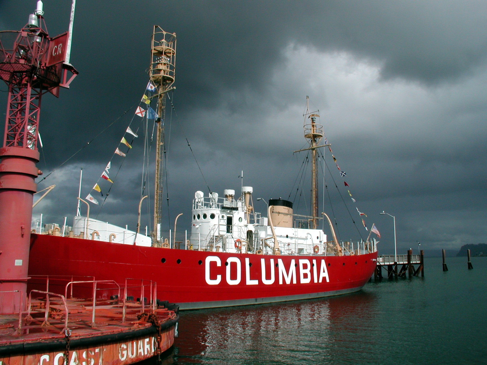 Bateau-feu Columbia au Columbia River Maritime Museum (Oregon) (Lightship Columbia WLV-604 and the Columbia River LNB.)